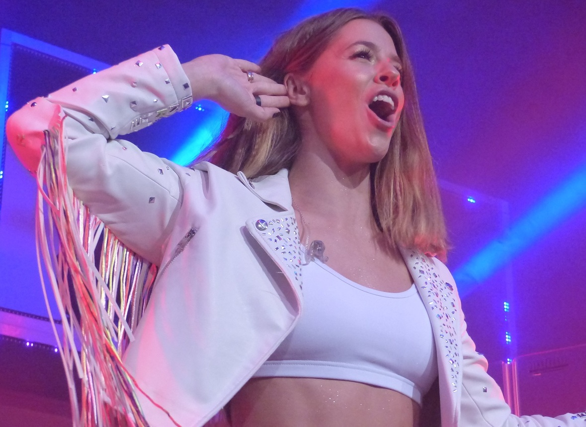 German singer Vanessa Mai during her "Teaser-Clubshow Tour 2019" at Gloria-Theater Cologne, Germany.